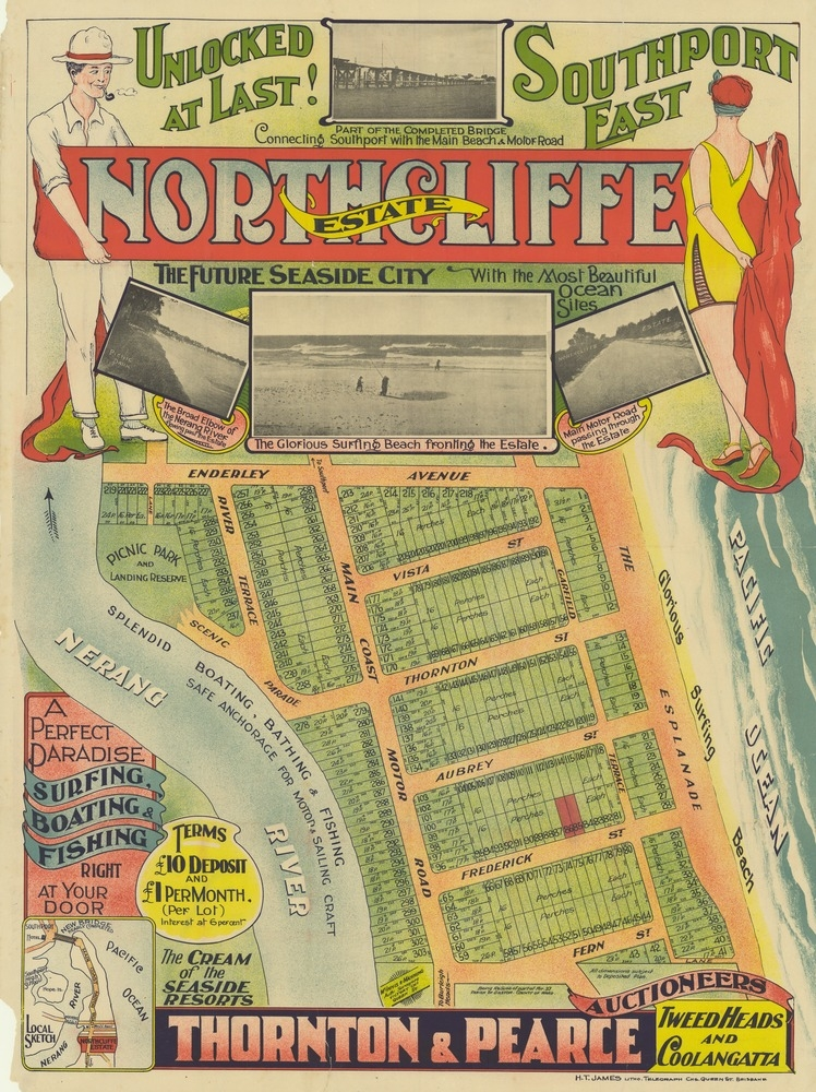 Creator: Thornton & Pearce, Auctioneers, McInnis & Manning, Surveyors. Location: Northcliffe Estate Gold Coast, Queensland. Description: At head of title: Unlocked at last! Southport East. Includes location map, black and white reproductions of photographs of the area and colour illustrations. Land for sale is re-subdivisions of part of portion 37, parish of Gilston, County of Ward. Read more about SLQ's map collections: View this image at the State Library of Queensland: Information about State Library of Queensland’s collection: You are free to use this image without permission. Please attribute State Library of Queensland.